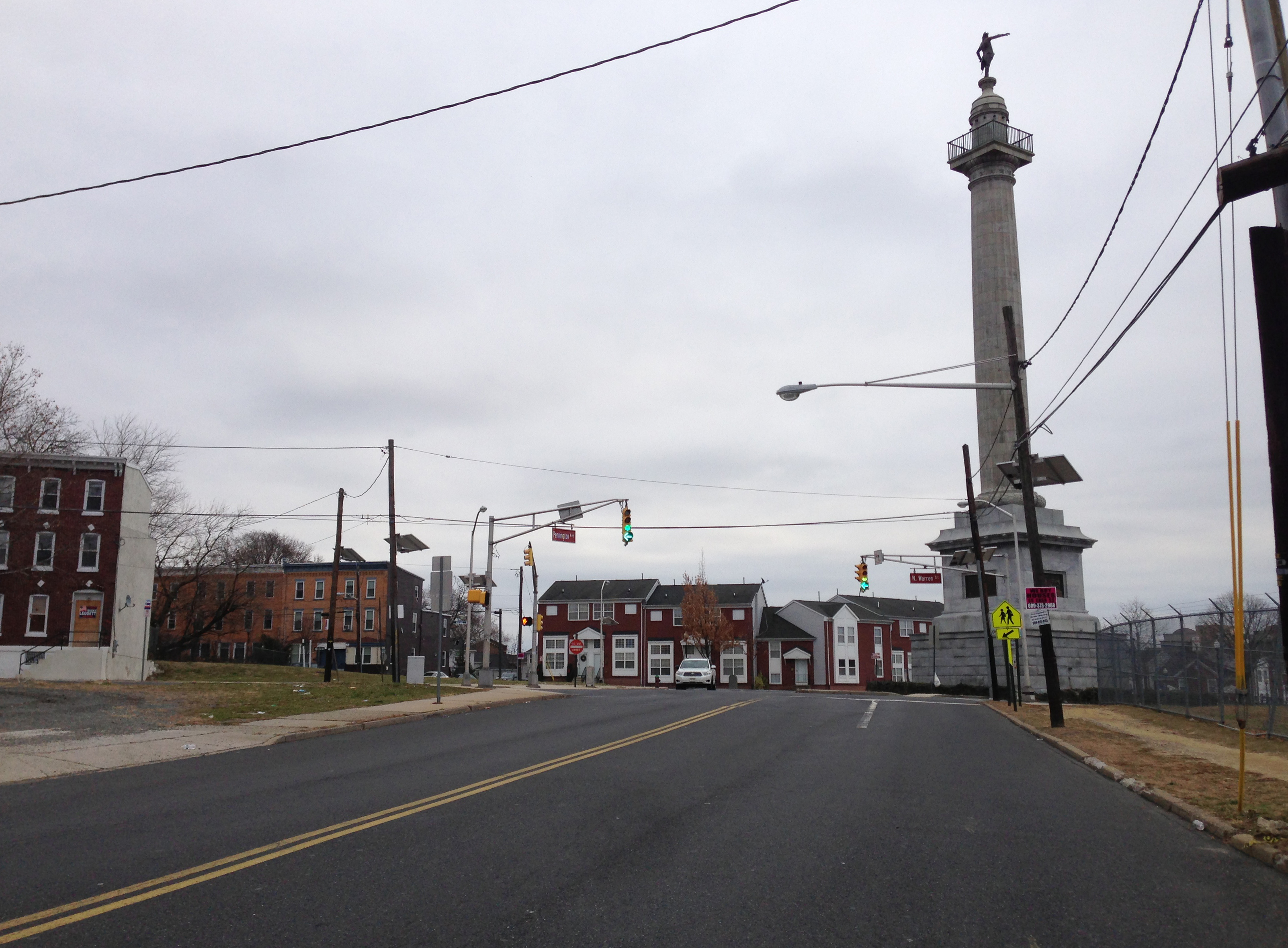 View south at the south end of Pennington Avenue (New Jersey Route 31) at Warren Street and Princeton Avenue (U.S. Route 206) at the Trenton Battle Monument in Trenton, New Jersey